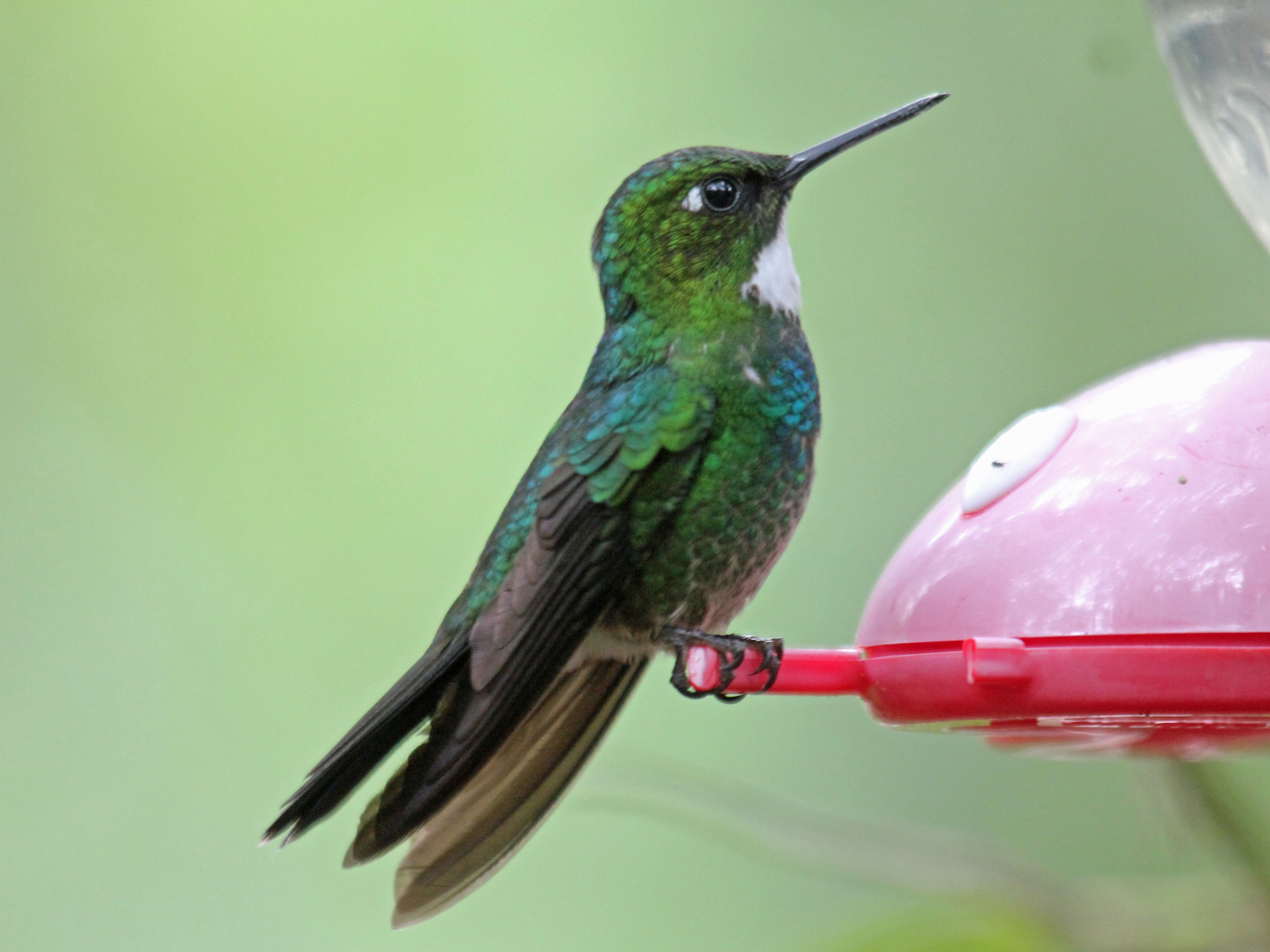 Female Tourmaline Sunangel (Heliangelus exortis) - Guango Lodge, Ecuador